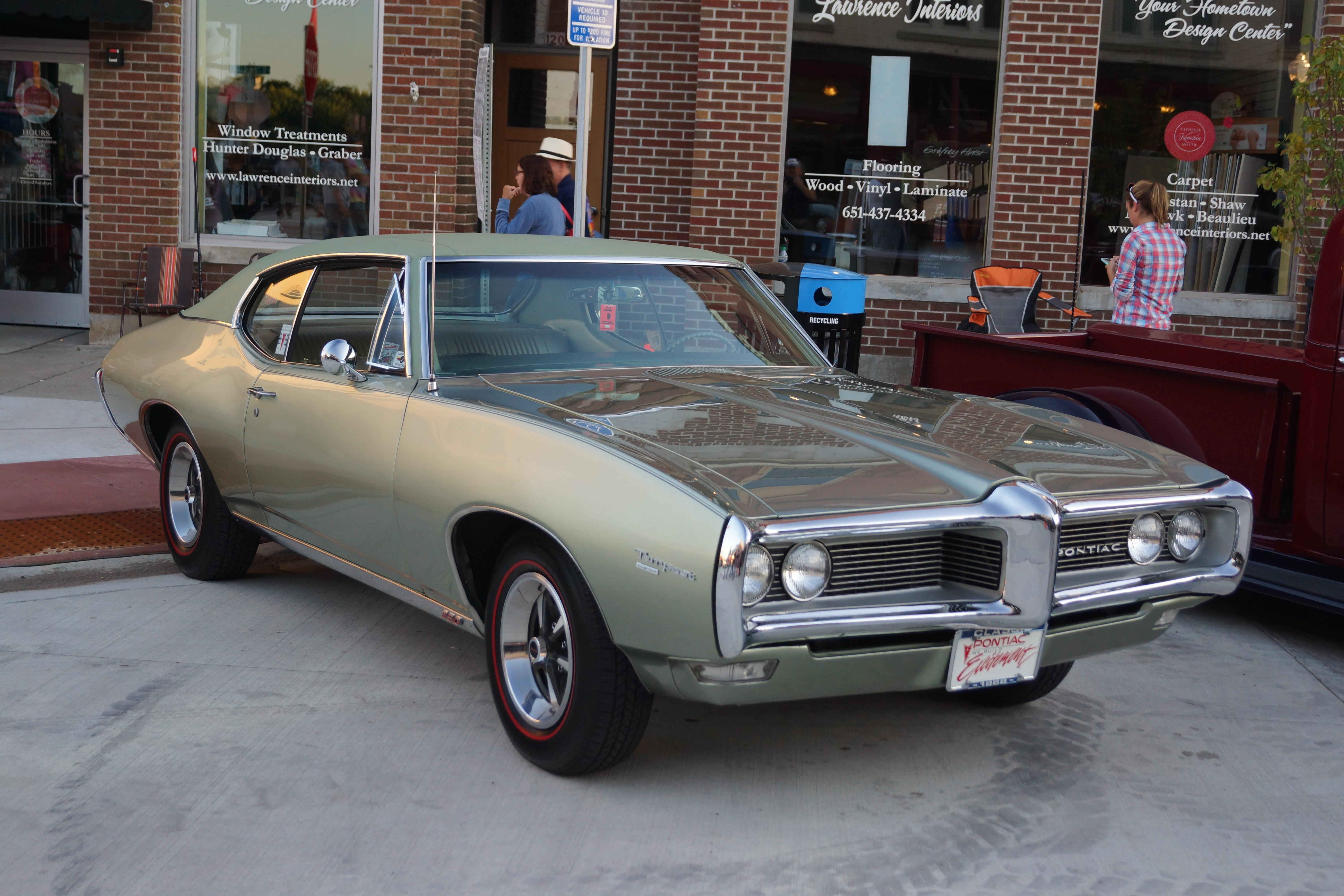 HISTORIC DOWNTOWN HASTINGS CRUISE-IN & CLASSIC CAR SHOW Hastings, Minnesota Late September 2016 Click here for more car pictures at my Flickr site.